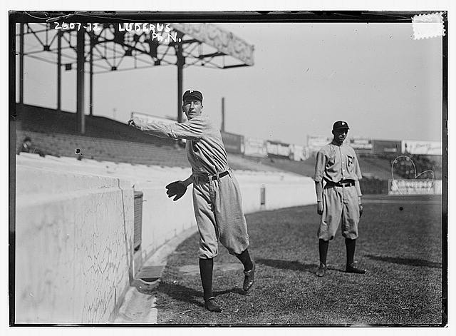 Eppa Rixey (left) & Erskine Mayer (right), Philadelphia NL, at Polo Grounds, NY (baseball)] (LOC) Bain News Service,, publisher. [Eppa Rixey (left) & Erskine Mayer (right), Philadelphia NL, at Polo Grounds, NY (baseball)] [1913] 1 negative : glass ; 5 x 7 in. or smaller. Notes: Original data provided by the Bain News Service on the negatives or caption cards: Luderus, Phils. Corrected title and date based on research by the Pictorial History Committee, Society for American Baseball Research, 2006. Forms part of: George Grantham Bain Collection (Library of Congress). Format: Glass negatives. Repository: Library of Congress, Prints and Photographs Division, Washington, D.C. 20540 USA, General information about the Bain Collection is available at Persistent URL: Call Number: LC-B2- 2607-12